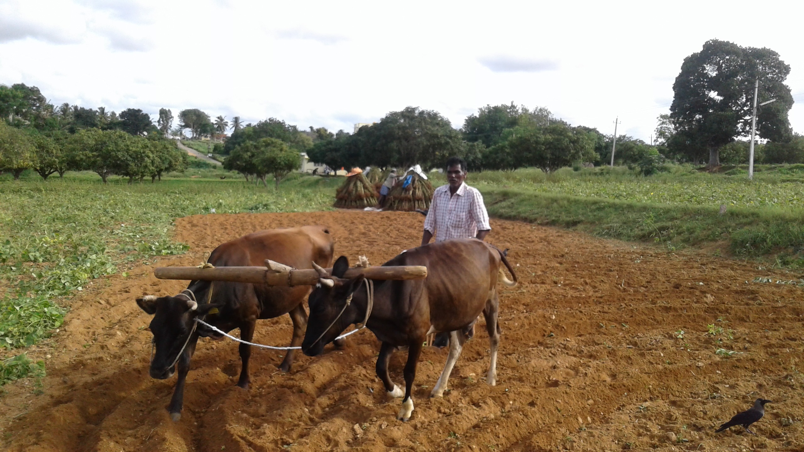 vaishali district, Bihar state, India.